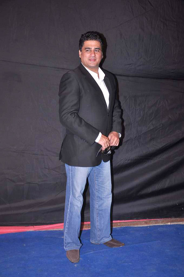 colors indian telly awards